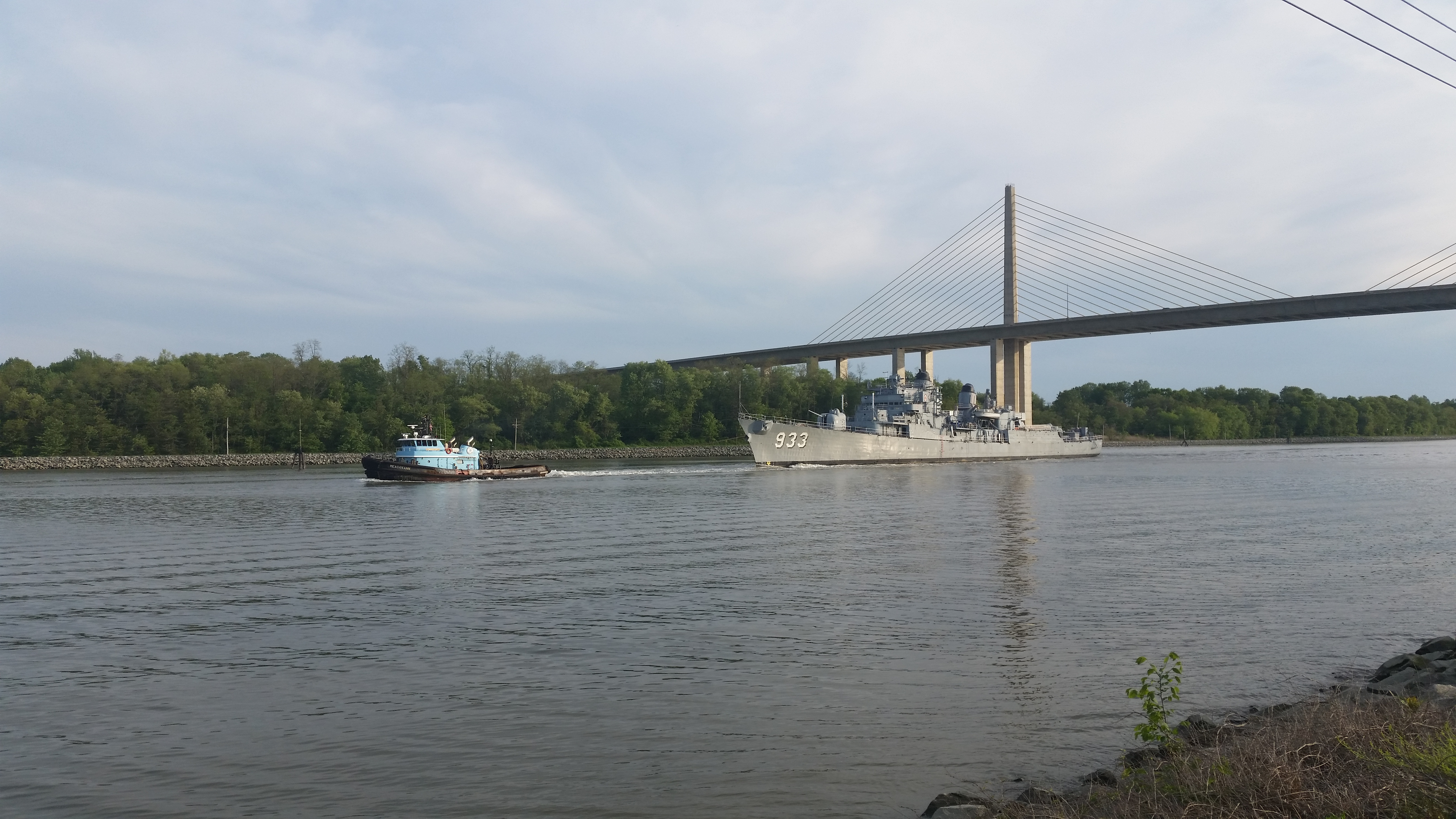 DD-933 being towed up the C&D Canal on May 8, 2016 as it passes beneath the Roth Bridge